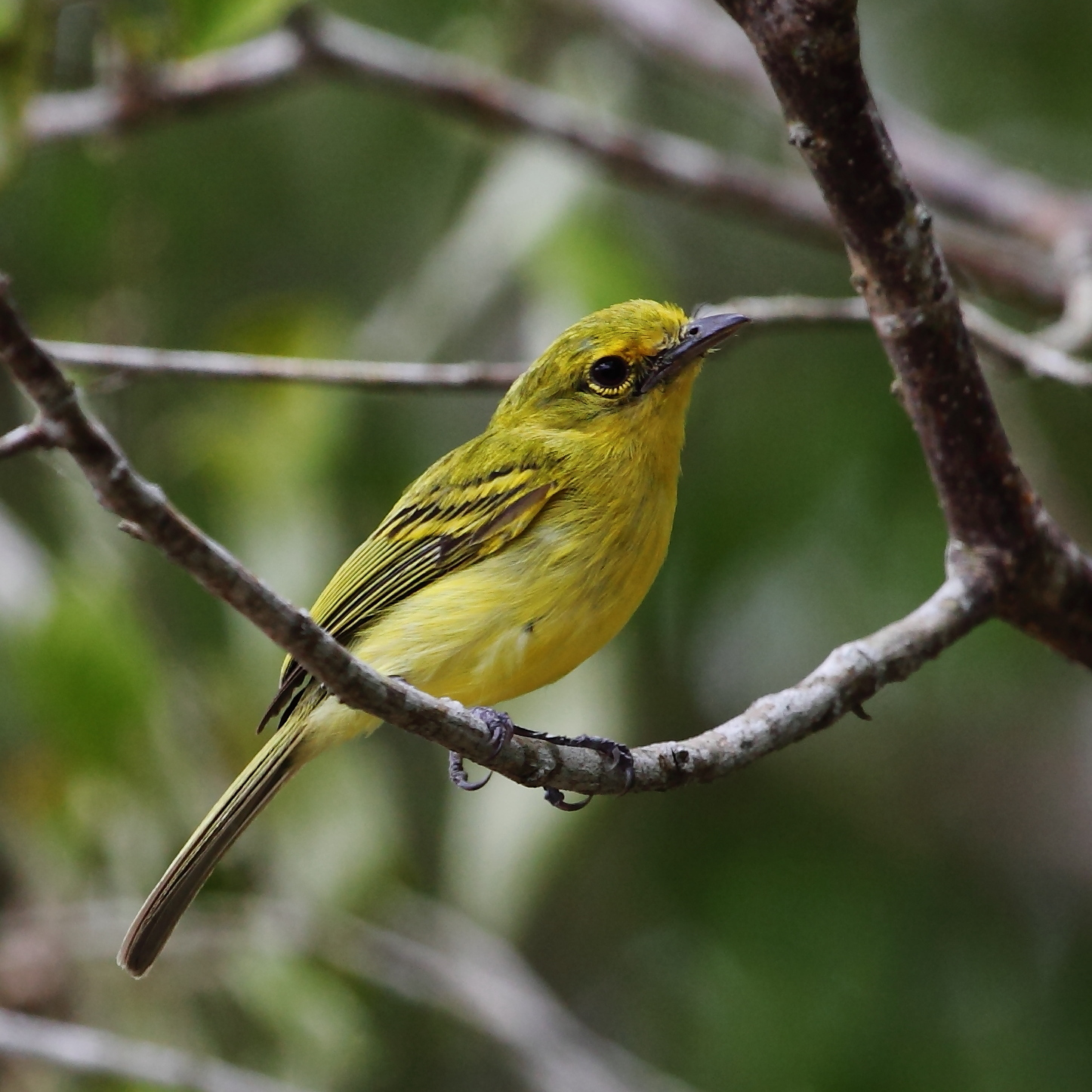 Yellow-breasted Flycatcher at Riachuelo - Rio Grande do Norte - Brazil